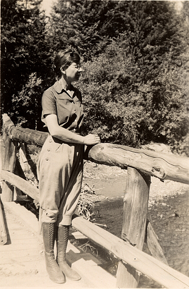 Isabel Bassett Wasson (1897 – 1994), one of the first female petroleum geologists in the United States, the first female ranger at Yellowstone National Park, and one of the first interpretive rangers hired by the National Park Service. This photo may have been taken near Yellowstone during the summer she worked there, 1920.